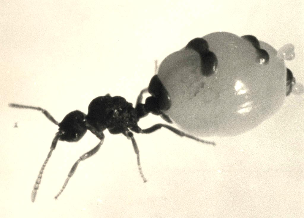 Anergates atratulus, queen. Ant queen with Physogastrism.